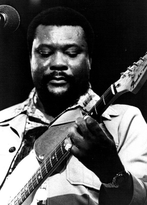 American blues guitarist Luther Johnson Jr in Paris, France.